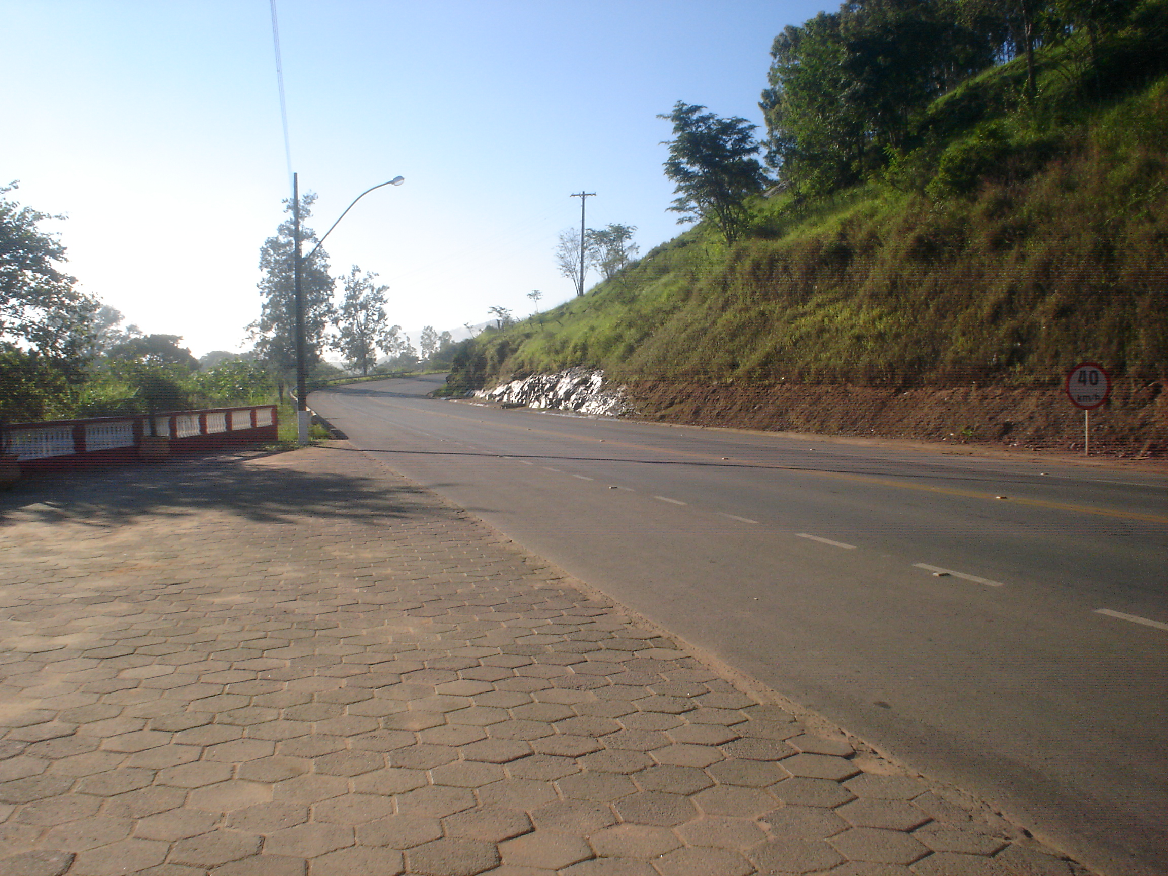 Road BR459 in Piranguinho, Minas Gerais, Brazil